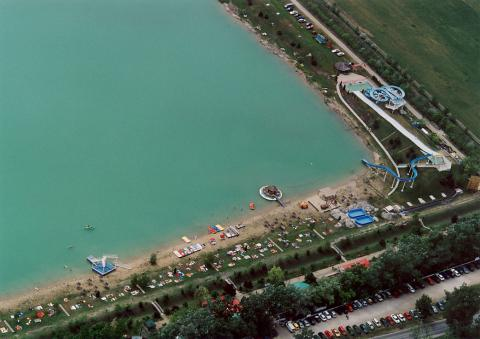 Dunavarsány, Hungary, aerial photographym; Lake Rukkel Waterpark